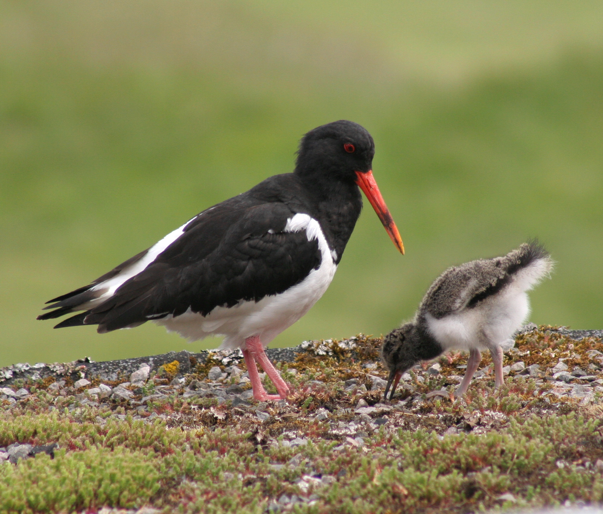 Eurasian Oystercatcher (also known as the Common Pied Oystercatcher) on the roof of Royal Golf Hotel, Dornoch, Scotland. The parent returned to the roof with a beak full of worms and dropped them on the roof several feet away from the young chick and then watched over it while it foraged around and ate them.